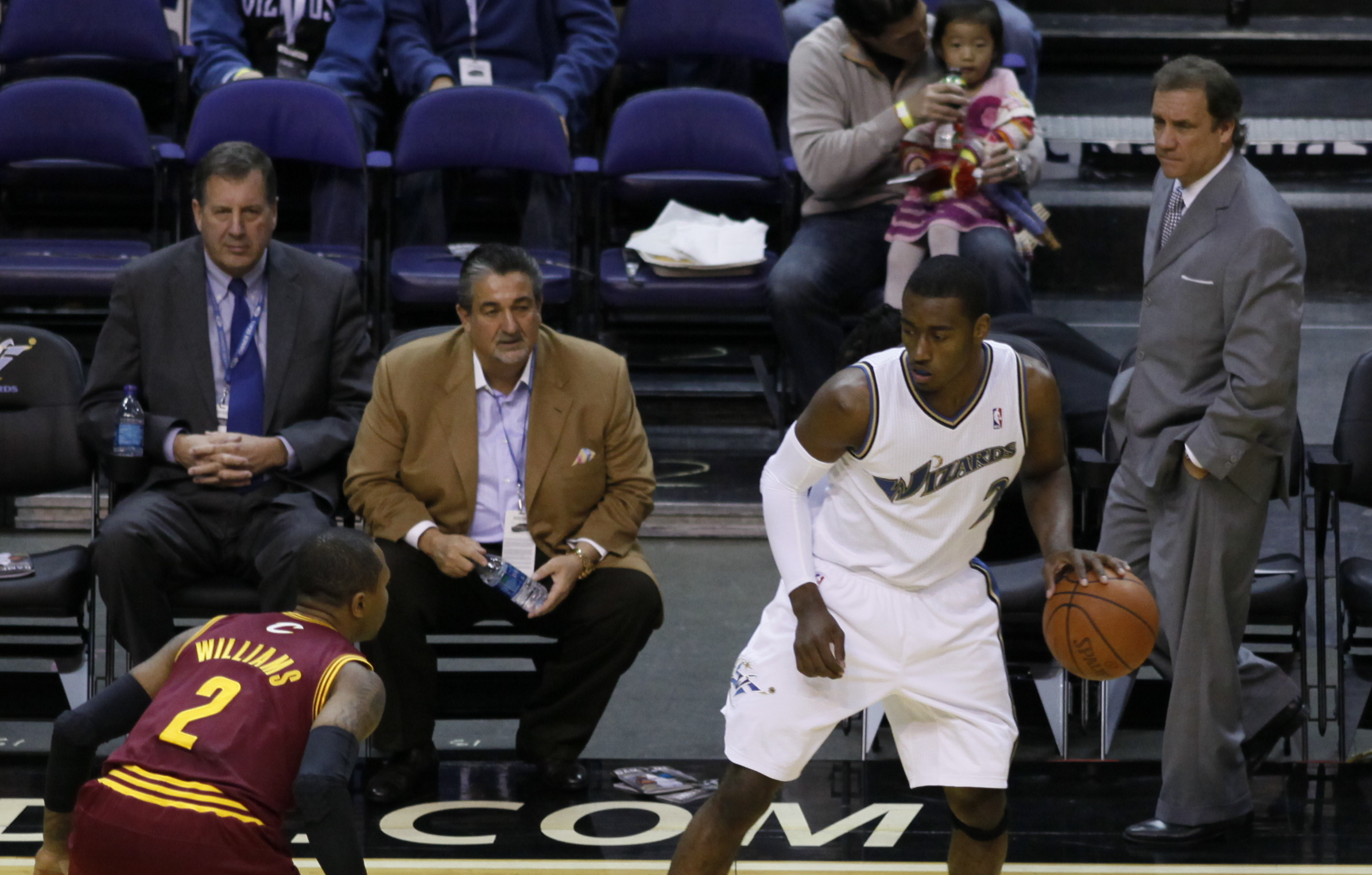 Ted Leonsis, owner of the Washington Wizards seated in tan blazer. John Wall with the ball, Flip Saunders in gray suit, Mo Williams defending. Washington Wizards v/s Cleveland Cavaliers November 6, 2010